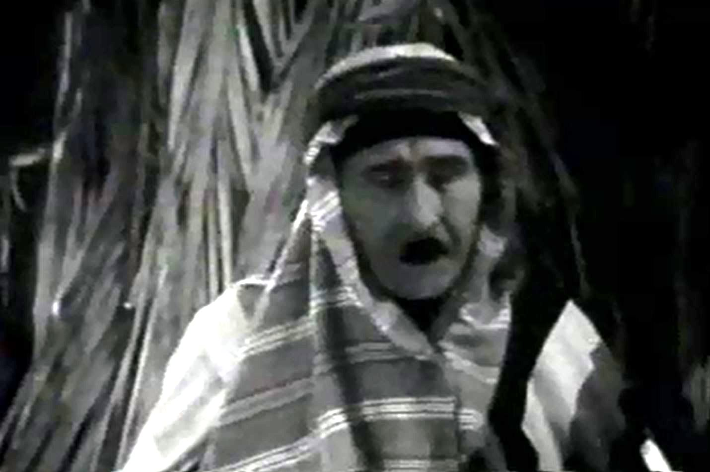 Low resolution screenshot of Paul Panzer as Mohammed Bey in the American film serial Tarzan the Tiger (1929). This character is killed in chapter 5 of the serial.